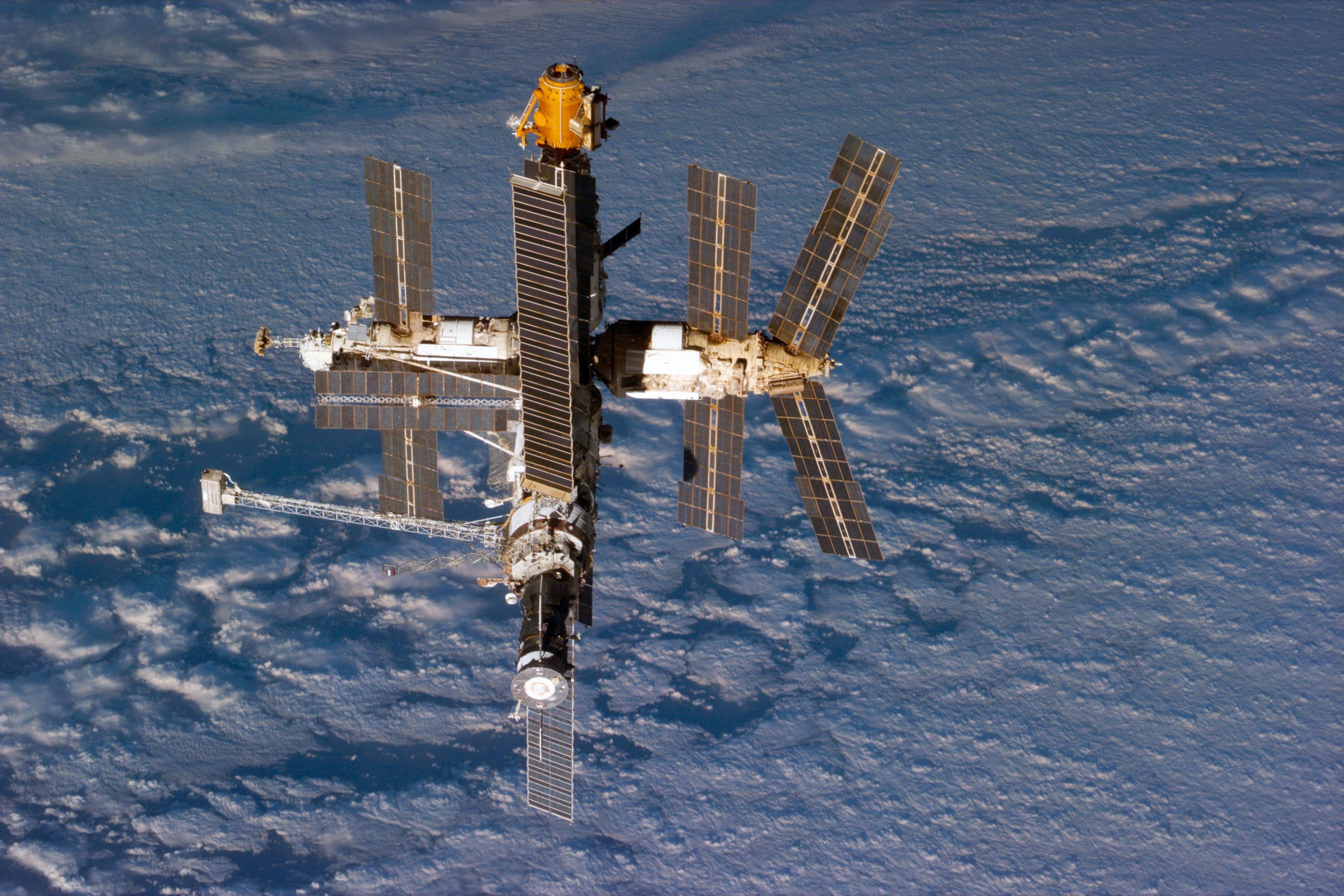 Russia's Mir Space Station, as seen in this Electronic Still Camera (ESC) photo from the Space Shuttle Atlantis, and the Space Shuttle begin their relative separation following undocking activity early today, during Flight Day 9.